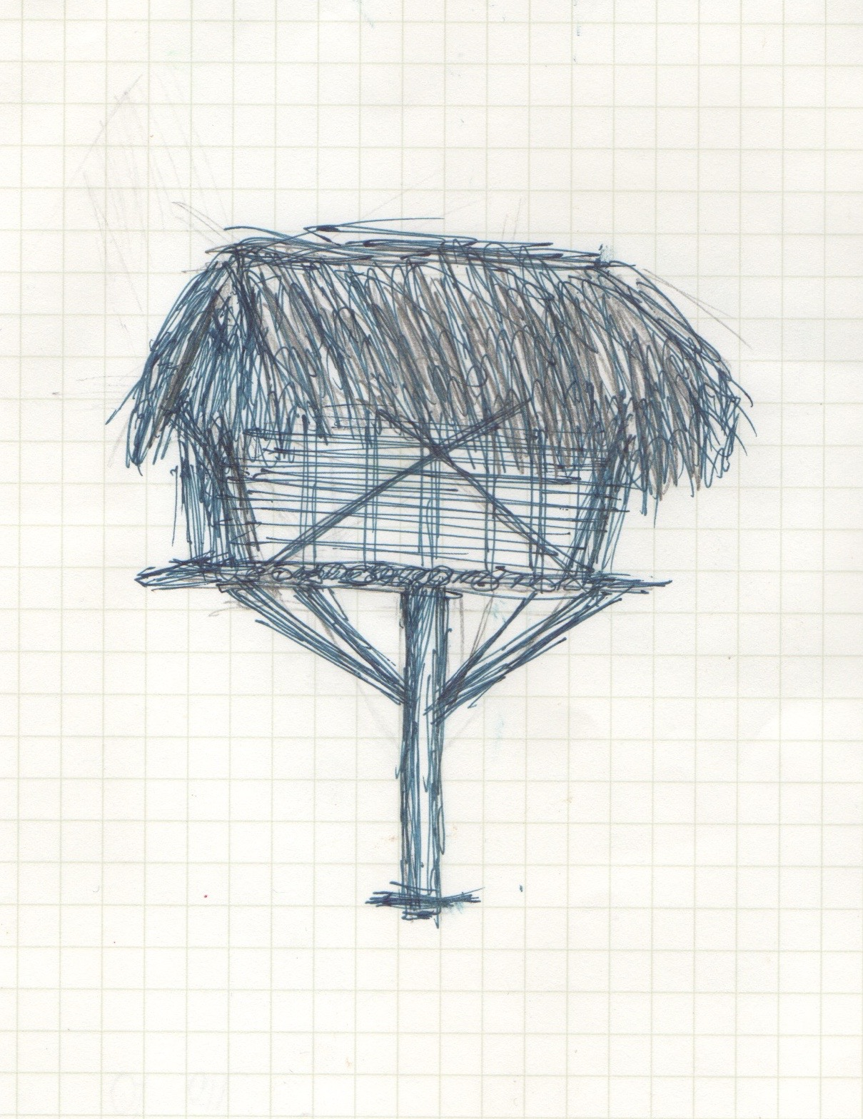 戈族的穀倉